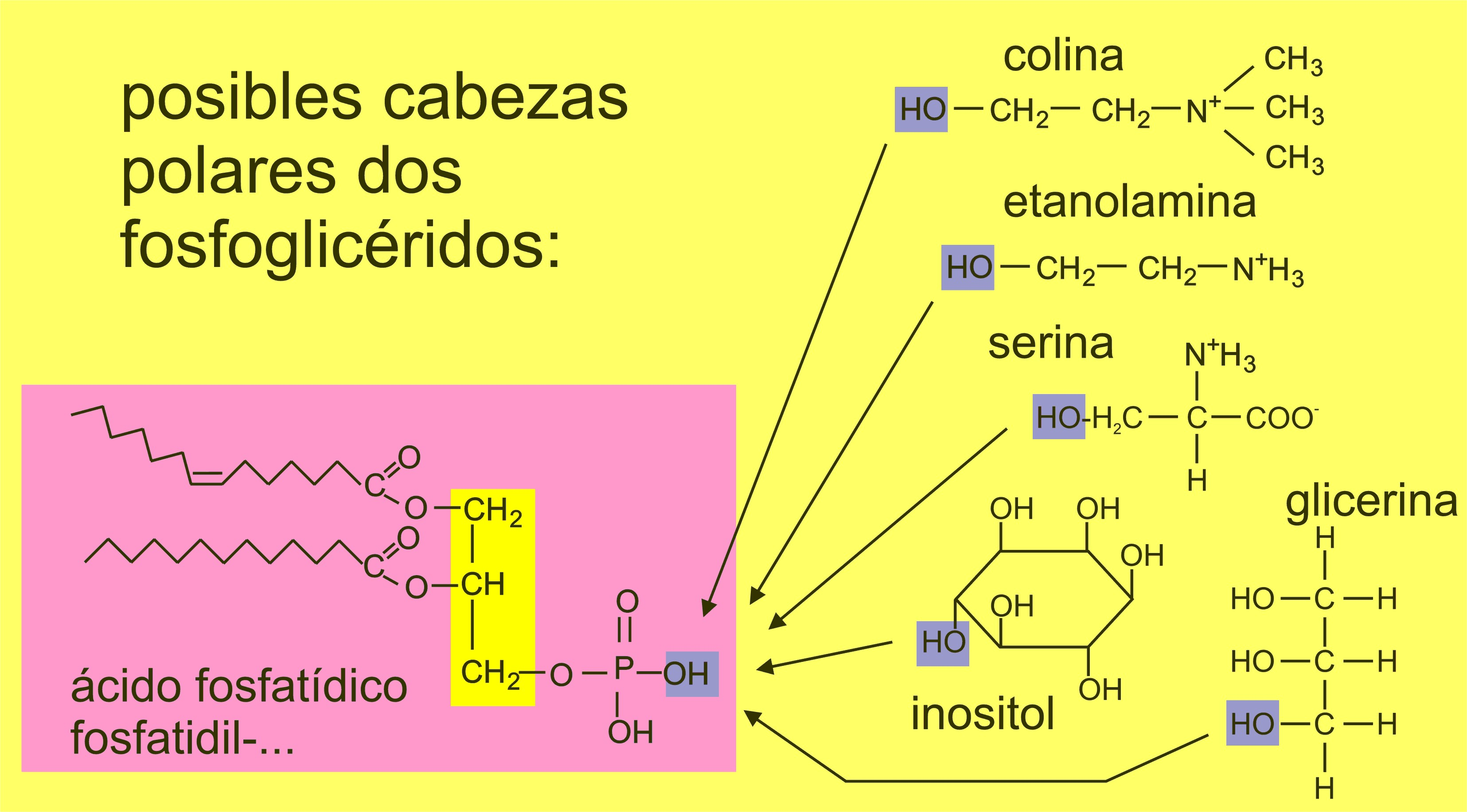 formation of phosphoglycerides